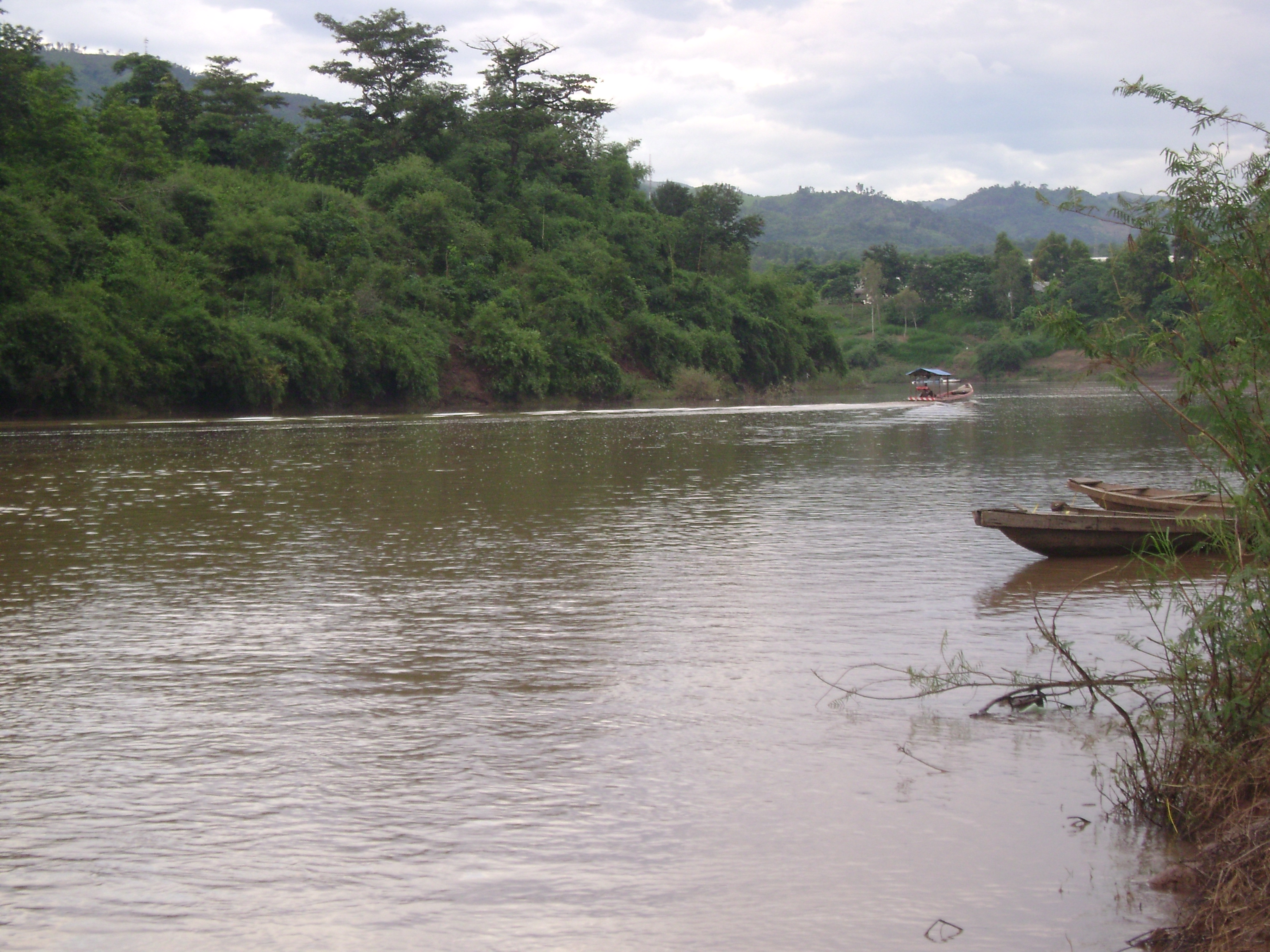 Sepon at the Lao-Vietnam border